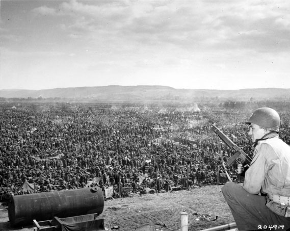 A United States soldier guarding German prisoners in an enclosure located near Remagen, Germany. The German prisoners were captured while fighting in Germany's Ruhr pocket.